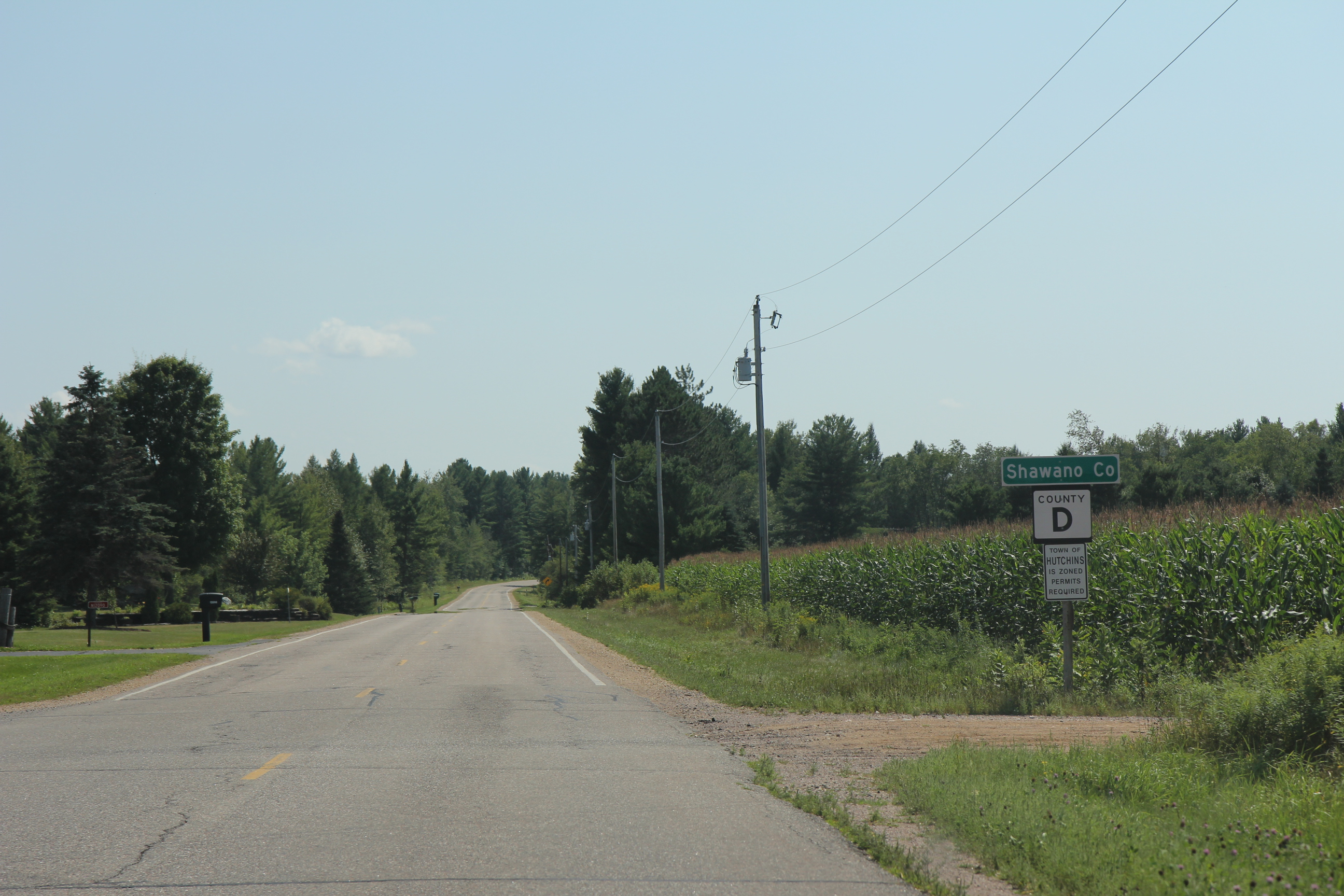 The sign for Shawano County while entering the county on County Road D.